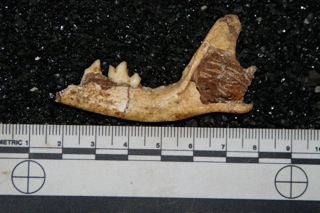 A scaled picture of the mandible of Vulpes skinneri. Malapa site, South Africa